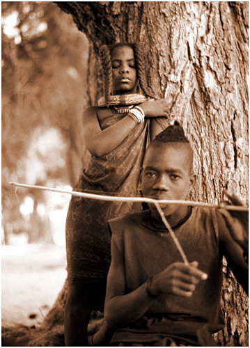 traditional music-instrument